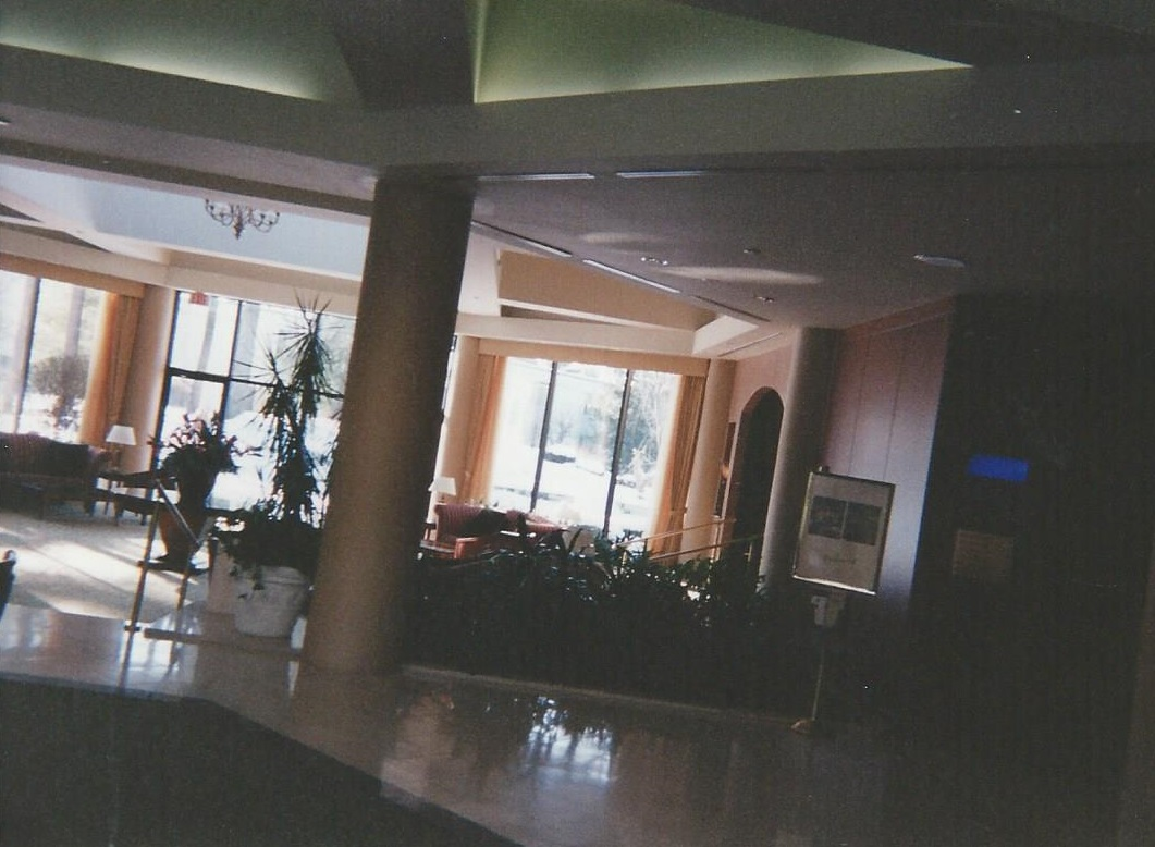 The Bedford Renaissance Hotel as the Java Community Process Executive Committee was holding a morning meeting there on January 23, 2001.